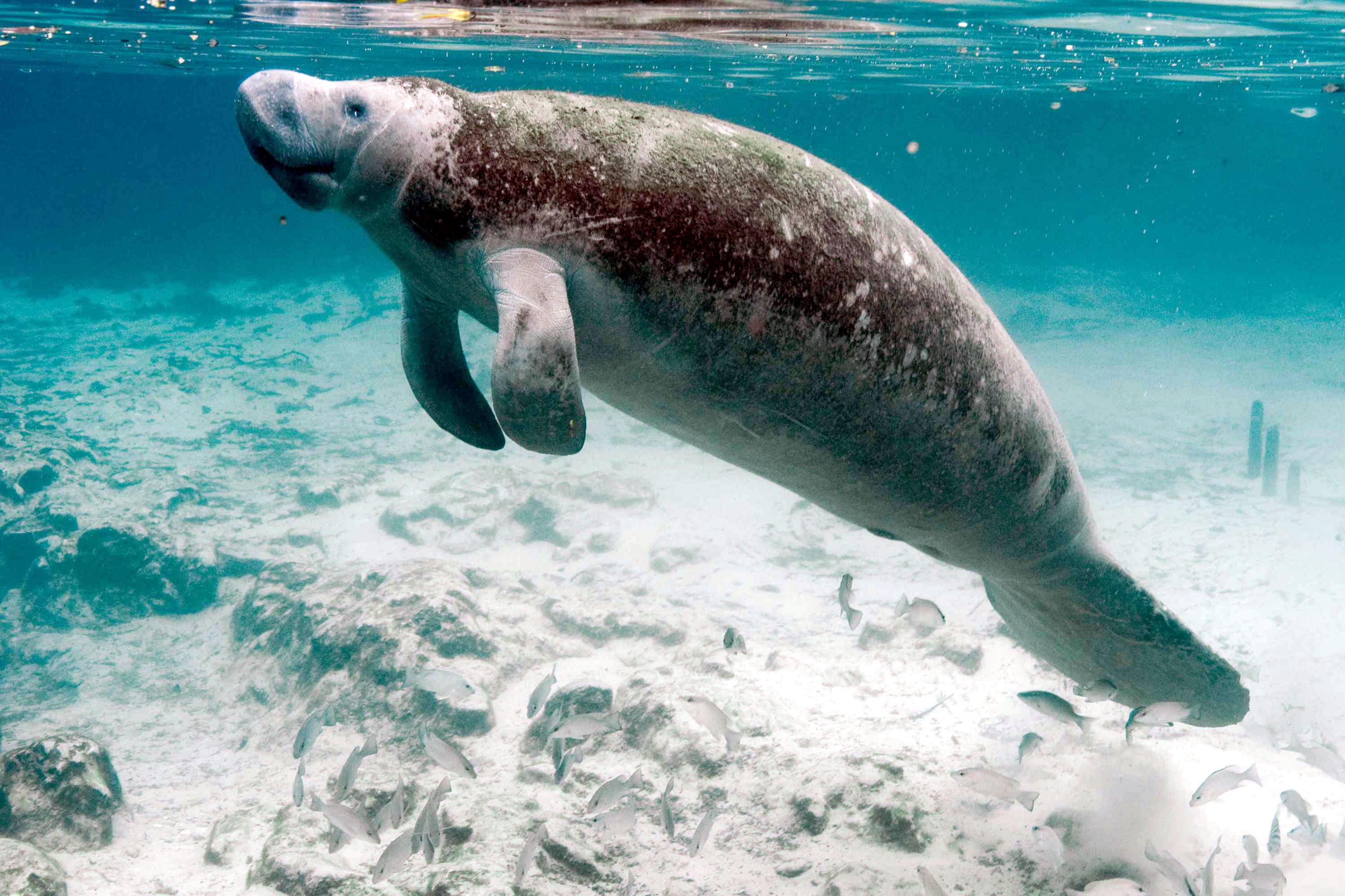 Image title: Underwater photography on endangered mammal specie manatee Image from Public domain images website